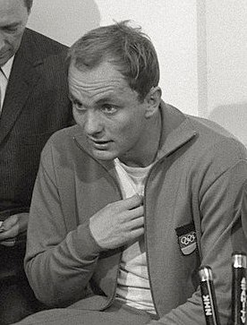 The German swimmer Hans-Joachim Klein is being interviewed by journalists during the Tokyo Olympics. Tokyo, October 1964